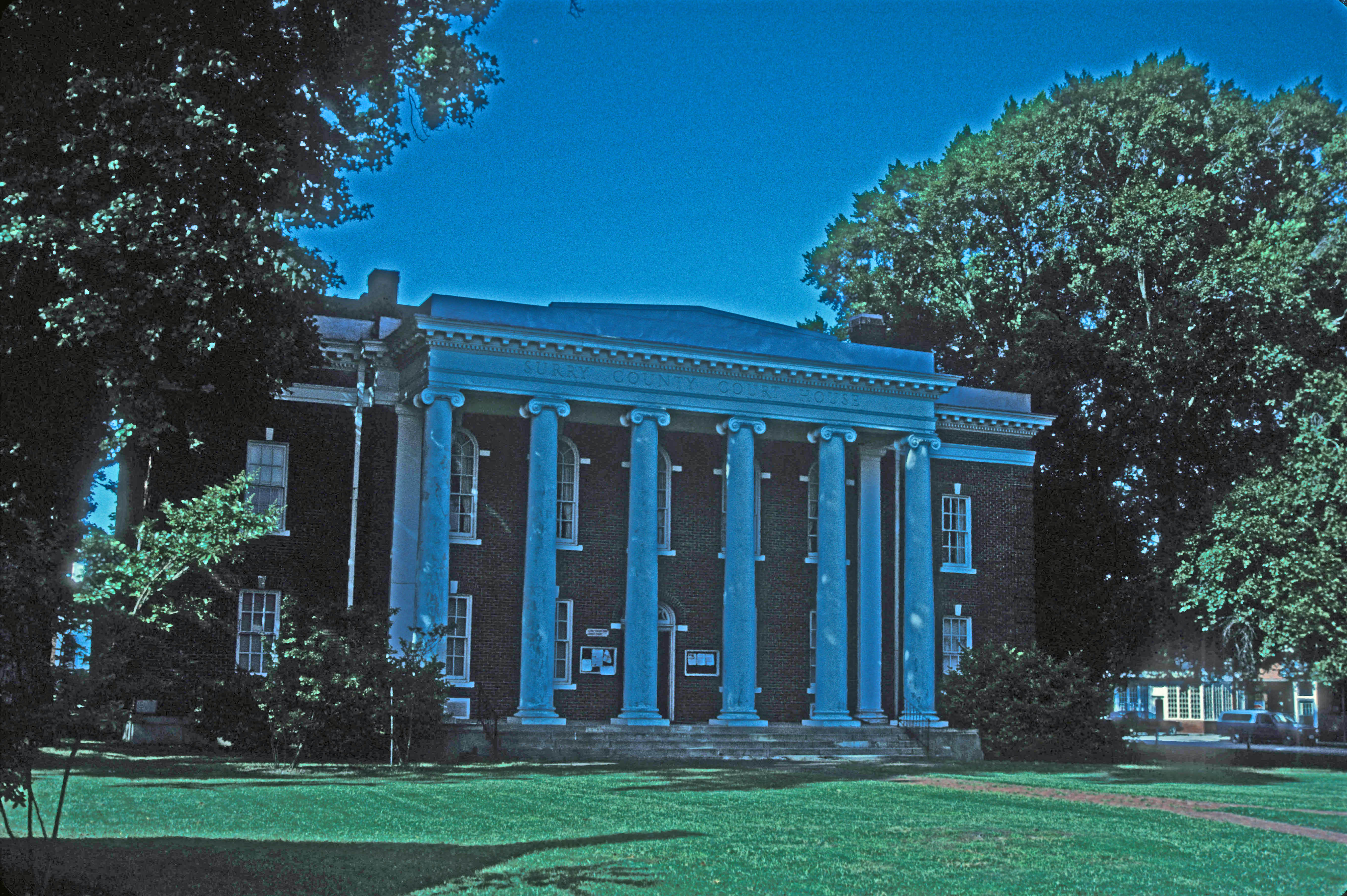 LATE 19TH & 20TH CENTURY CLASSICAL REVIVAL